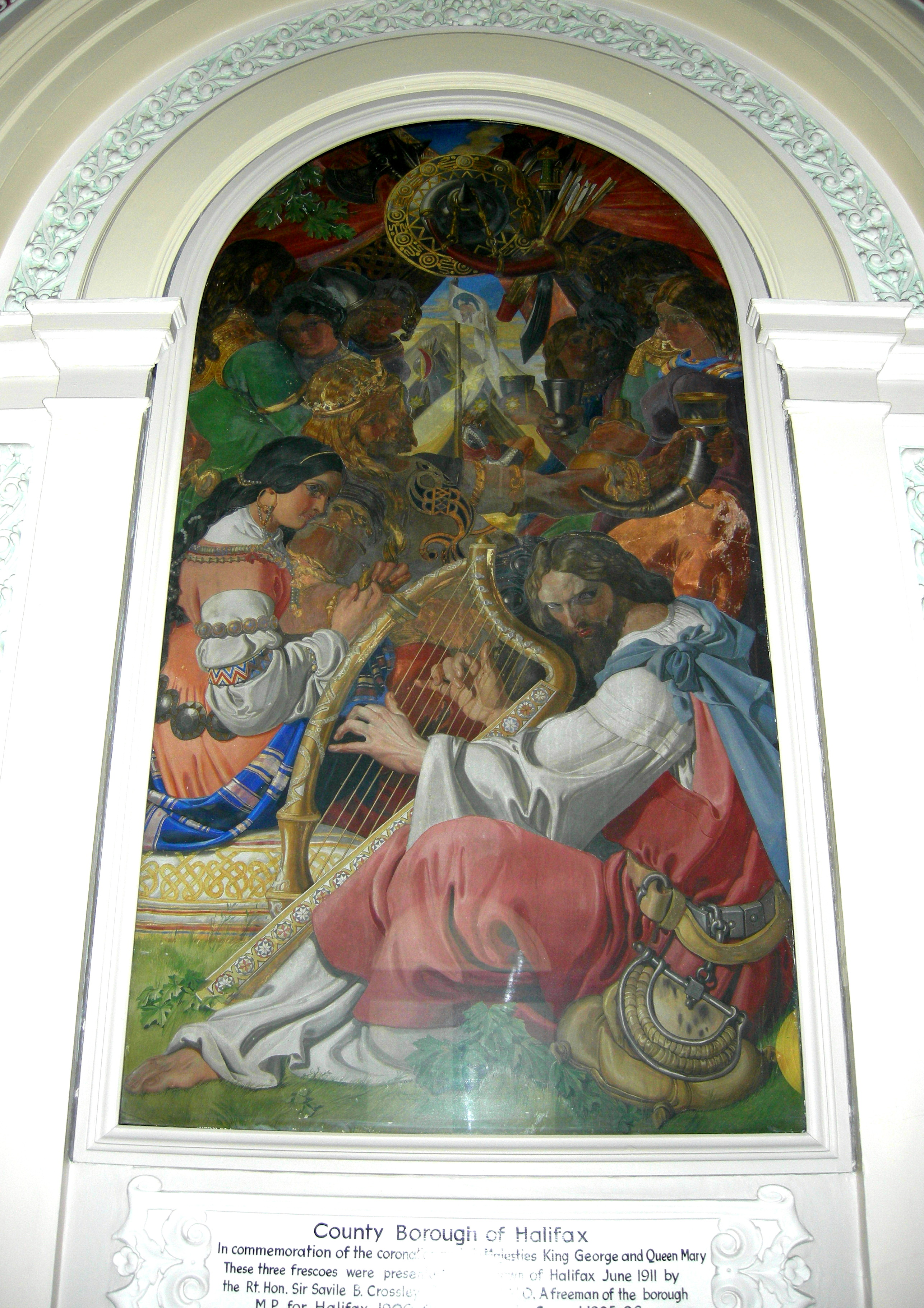 Painting by Daniel Maclise from Town Hall, Halifax, West Yorkshire, England. 53 43'28"N. 1 51'38"W.